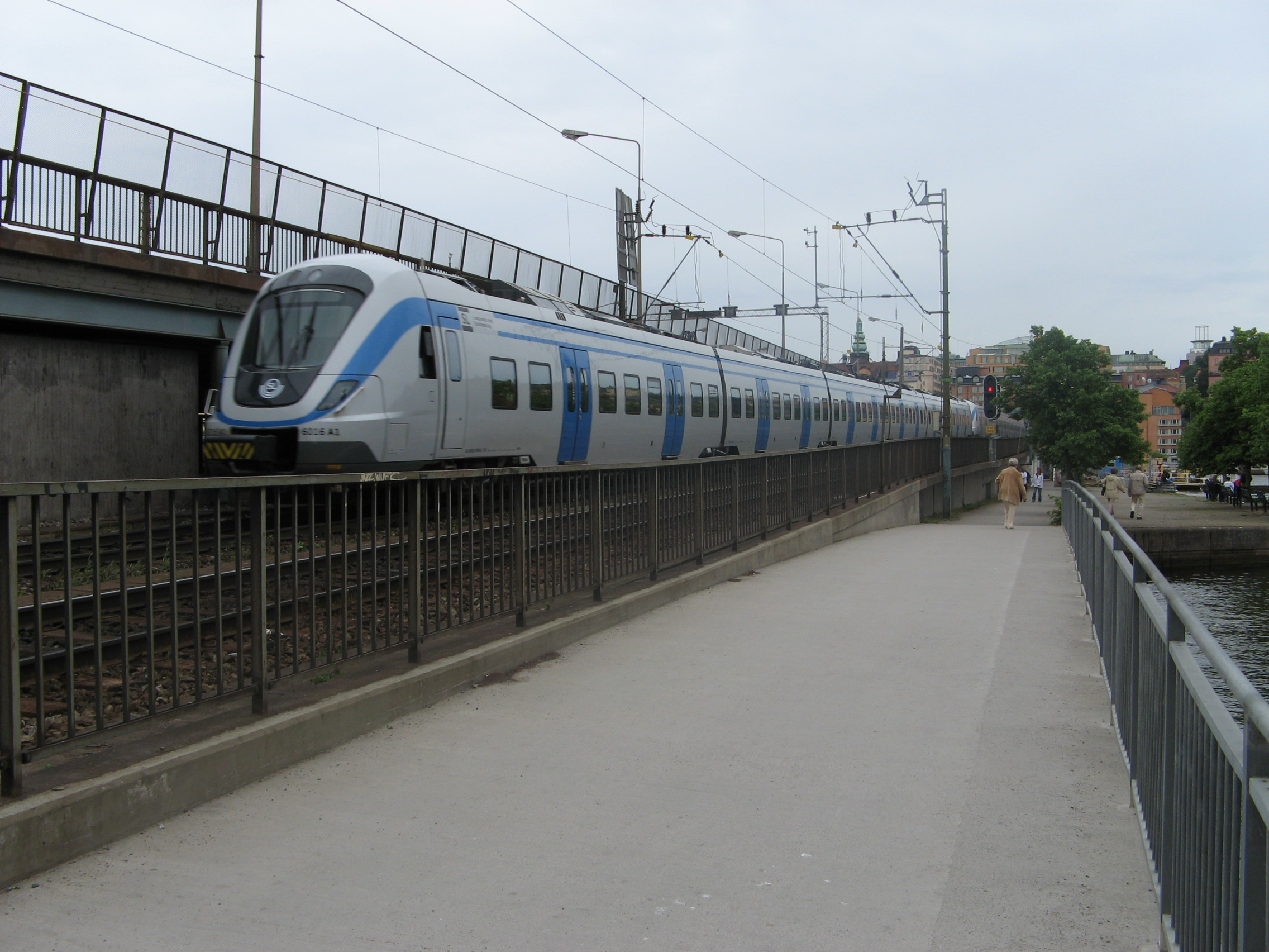 X60 train on Centralbron, Stockholm, Sweden